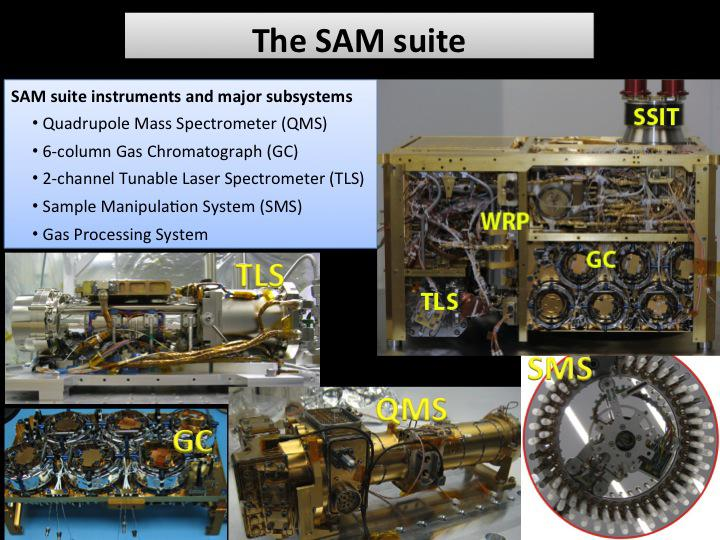 PIA16816: The SAM Suite Target Name: Mars Mission: Mars Science Laboratory (MSL) Spacecraft: Curiosity Instrument: SAM Product Size: 720 x 540 pixels (width x height) Produced By: JPL Full-Res TIFF: PIA16816.tif (1.167 MB) Full-Res JPEG: PIA16816.jpg (87.23 kB) Click on the image above to download a moderately sized image in JPEG format (possibly reduced in size from original) Original Caption Released with Image: This illustration shows the instruments and subsystems of the Sample Analysis at Mars (SAM) suite on the Curiosity Rover of NASA's Mars Science Laboratory Project. The suite consists of three instruments -- quadrupole mass spectrometer (QMS), tunable laser spectrometer (TLS) and gas chromatograph (GC) -- and various subsystems including two wide range pumps (WRP), a sample manipulation system (SMS), a solid sample inlet tube (SSIT), a gas processing system and pyrolysis ovens. SAM analyzes the gases in the Martian atmosphere and those evolved from heating the solid samples of scooped soil and drilled rock material. It provides information about the composition, abundance and isotopes of the sample. NASA's Jet Propulsion Laboratory, Pasadena, Calif., manages the Mars Science Laboratory Project and the mission's Curiosity rover for NASA's Science Mission Directorate in Washington. The rover was designed and assembled at JPL, a division of the California Institute of Technology in Pasadena. More information about Curiosity is online at and Image Credit: NASA/JPL-Caltech Image Addition Date: 2013-04-08